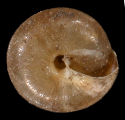 Photo of shell of Petasina unidentata. Locality: Slovakia: Striebornica. Date: 8 September 1980.